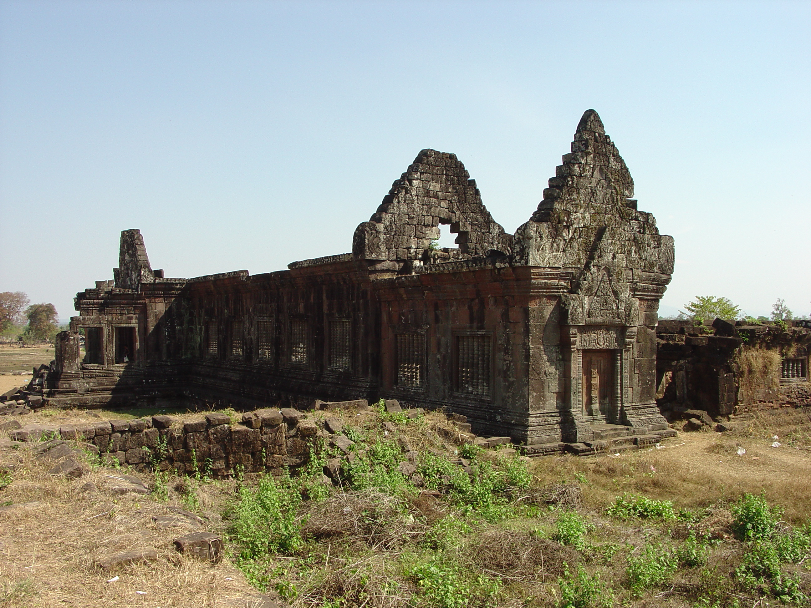 On either side of the temple axis there are two large buildings (the so-called "palaces"), of unknown function, each enclosing a square courtyard. These were built in the 11th or early 12th century.